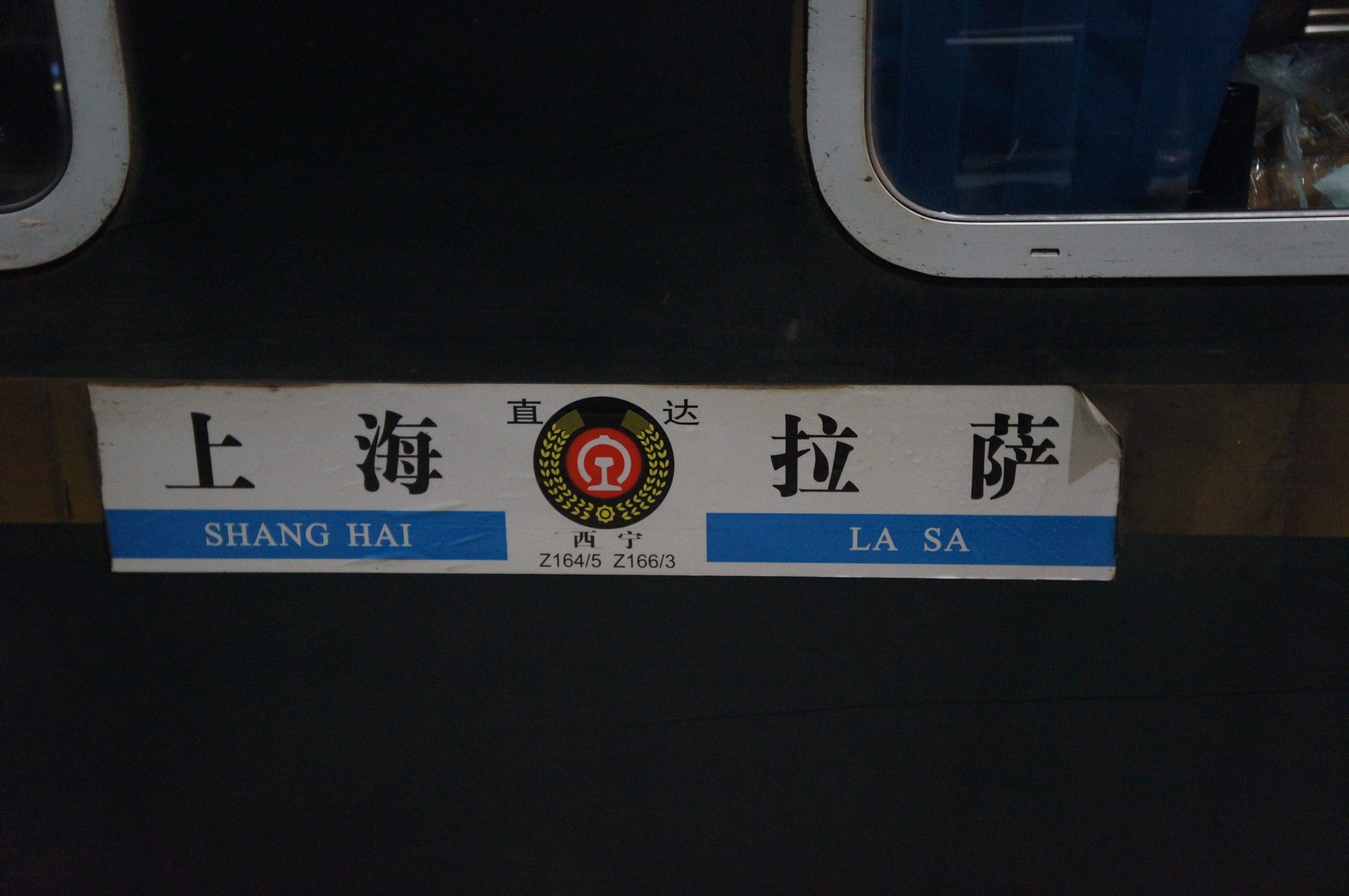 Z163 164 165 166 by Shanghai Crew infoboard in 201812